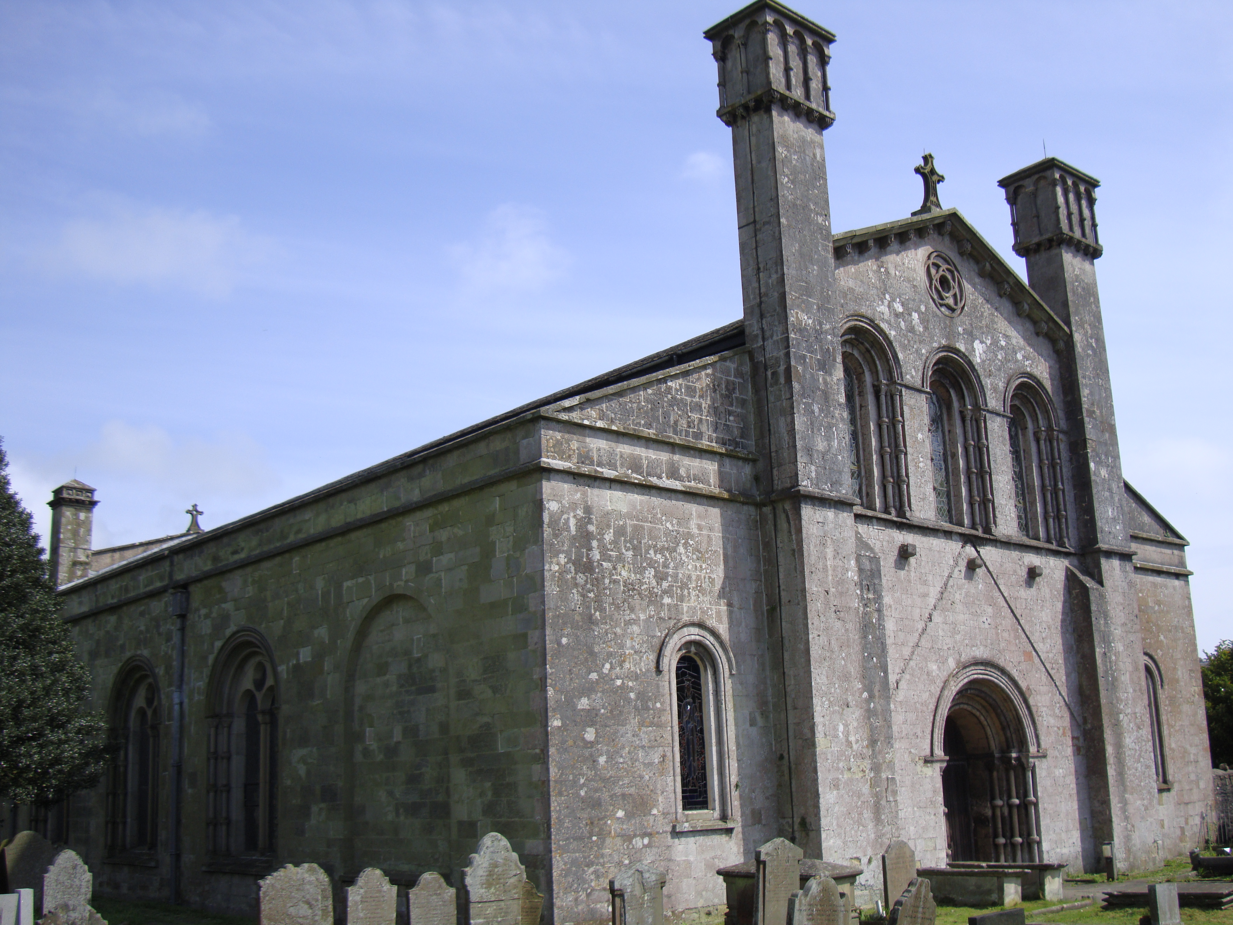 Photograph of Margam Abbey, Glamorgan, Wales